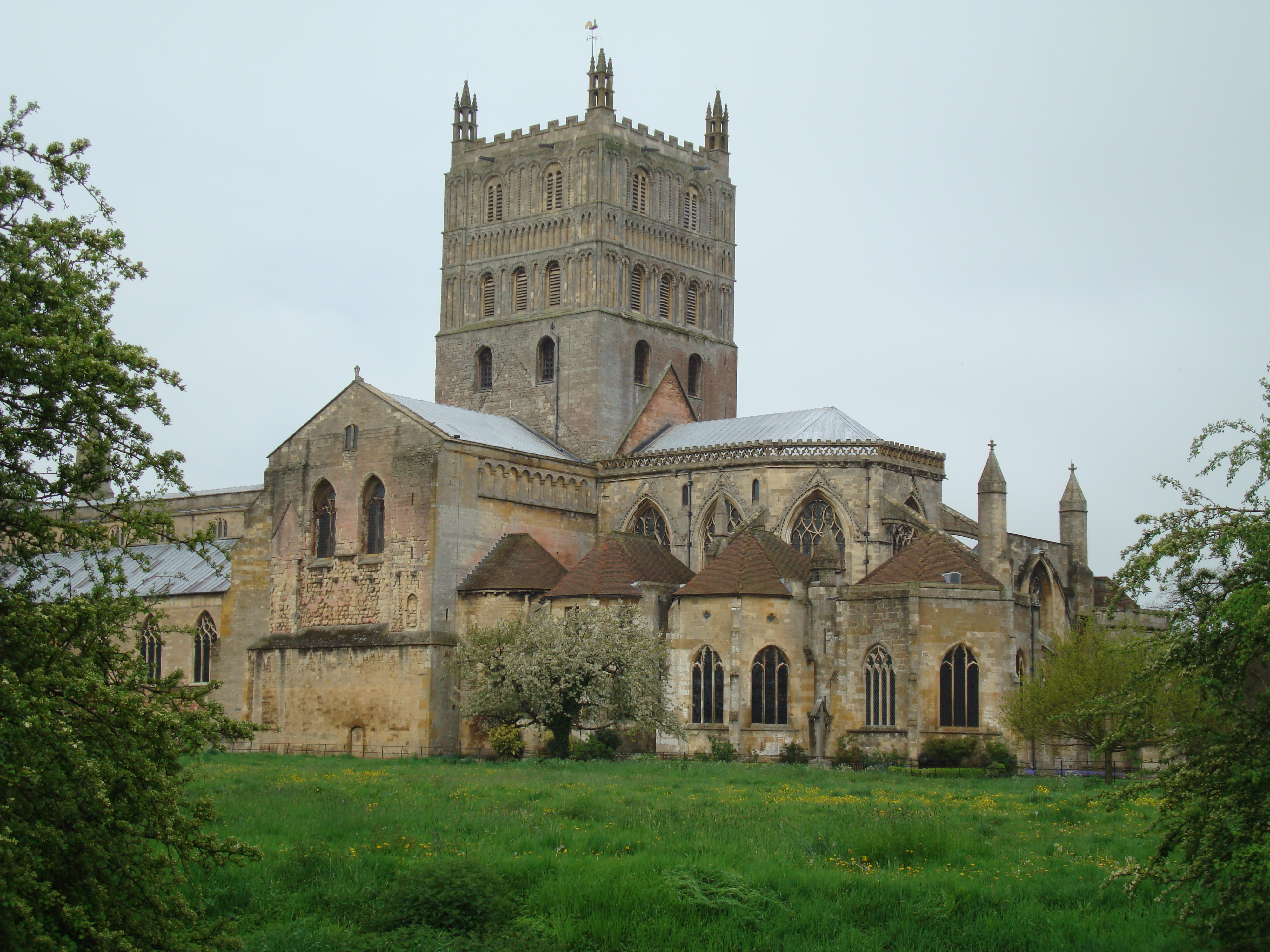 Photograph of Tewkesbury Abbey, Gloucestershire, England - view from south east